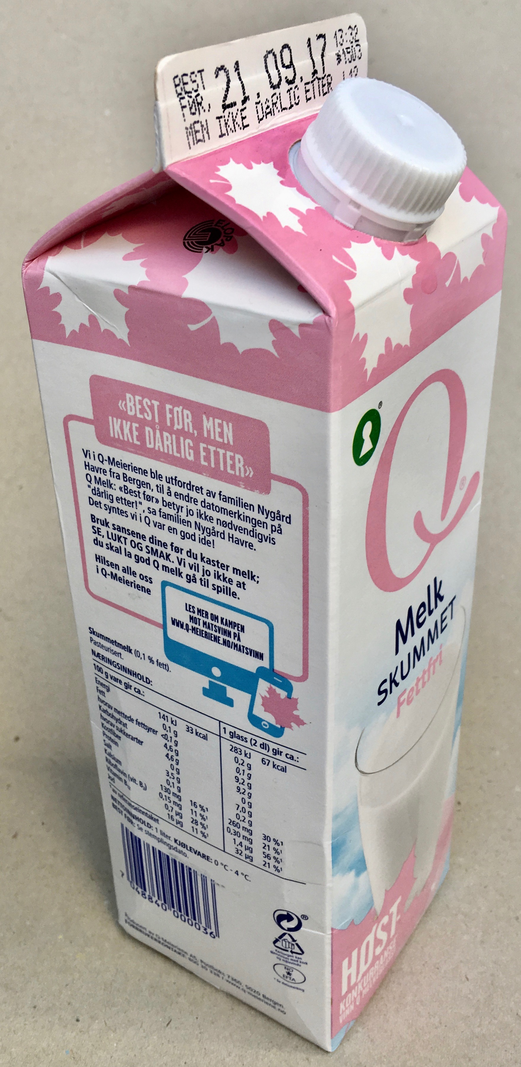 Carton with skimmed milk produced at the Q dairies in Norway. Shelf life marking in Norwegian ("Best before but not bad after [2017-09-21])".